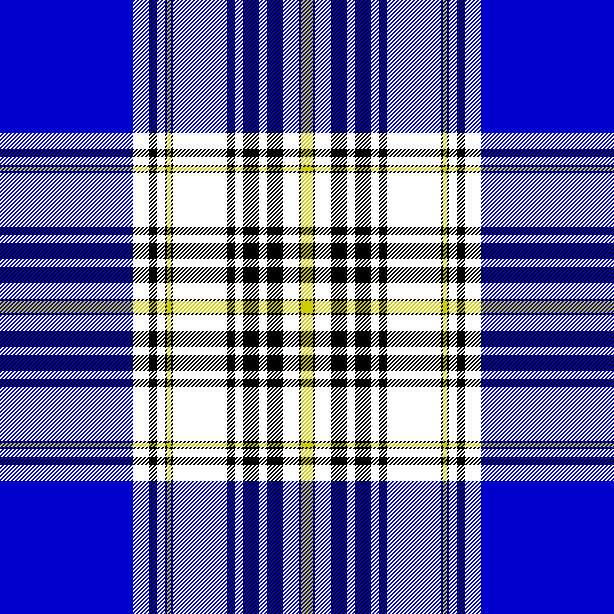 A digital representation of the Livingston Dress tartan. Thread count used in this image: B133 W16 K8 W8 k2 y4 K2 W54 K8 W8 K16 W8 K16 W16 K2 Y12. Source of the tartan is W. Bill Ltd. London. Retailers. [1]